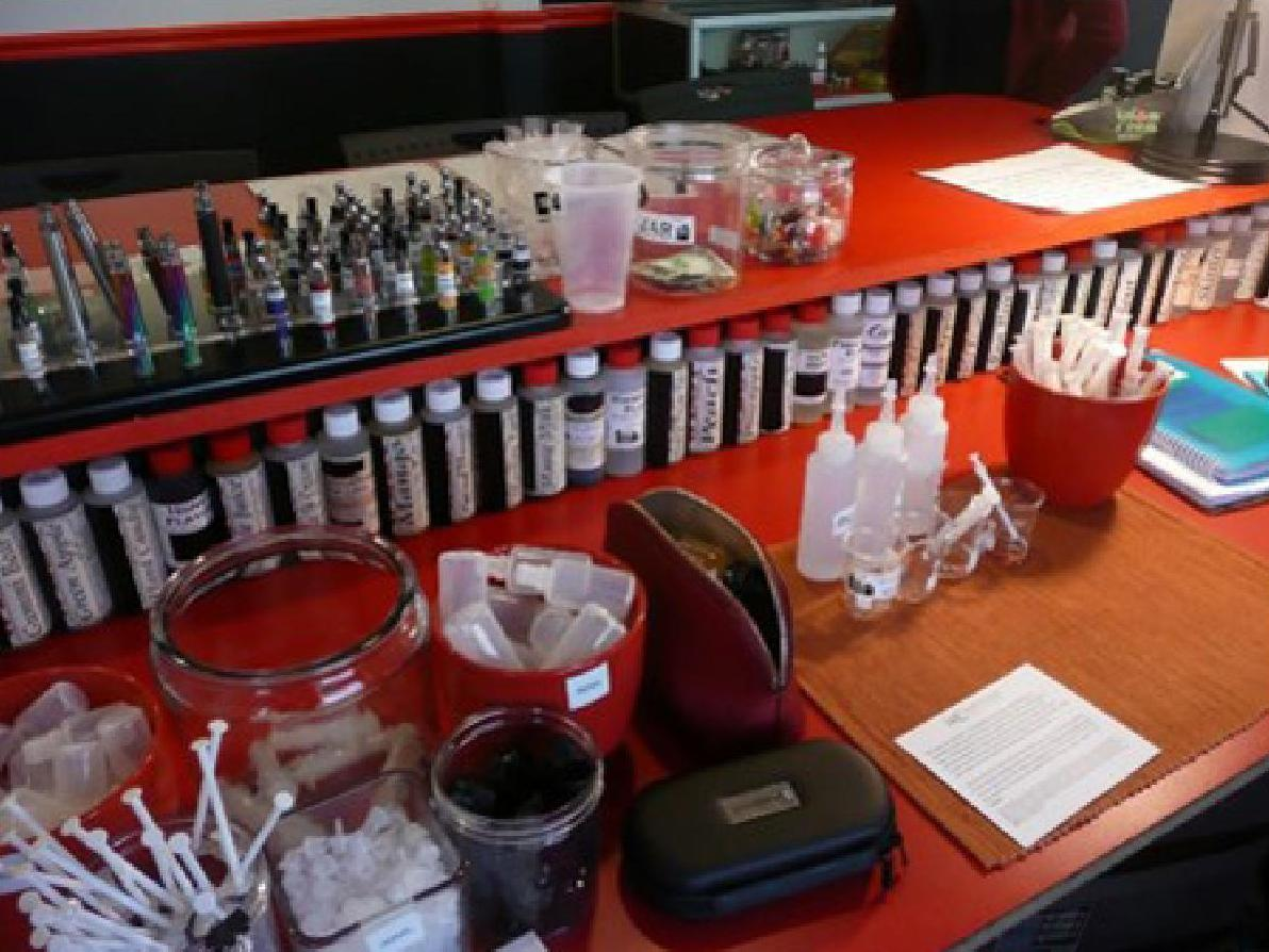 Department of Health and Human Services Center for Disease Control report, Evaluation of Chemical Exposures at a Vape Shop